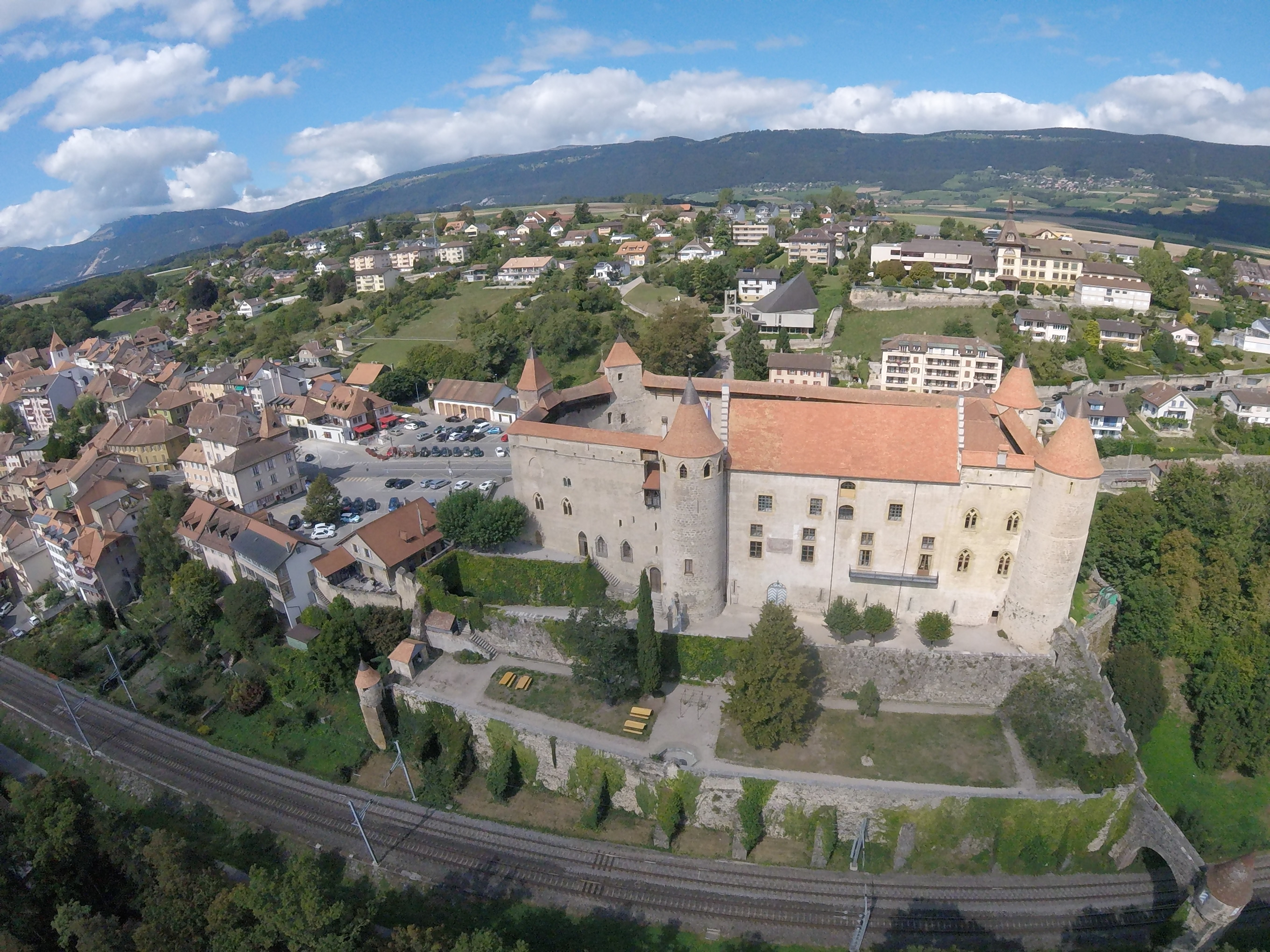 Grandson, a municipality in the district of Jura-Nord Vaudois in the canton of Vaud in Switzerland, aerial photo